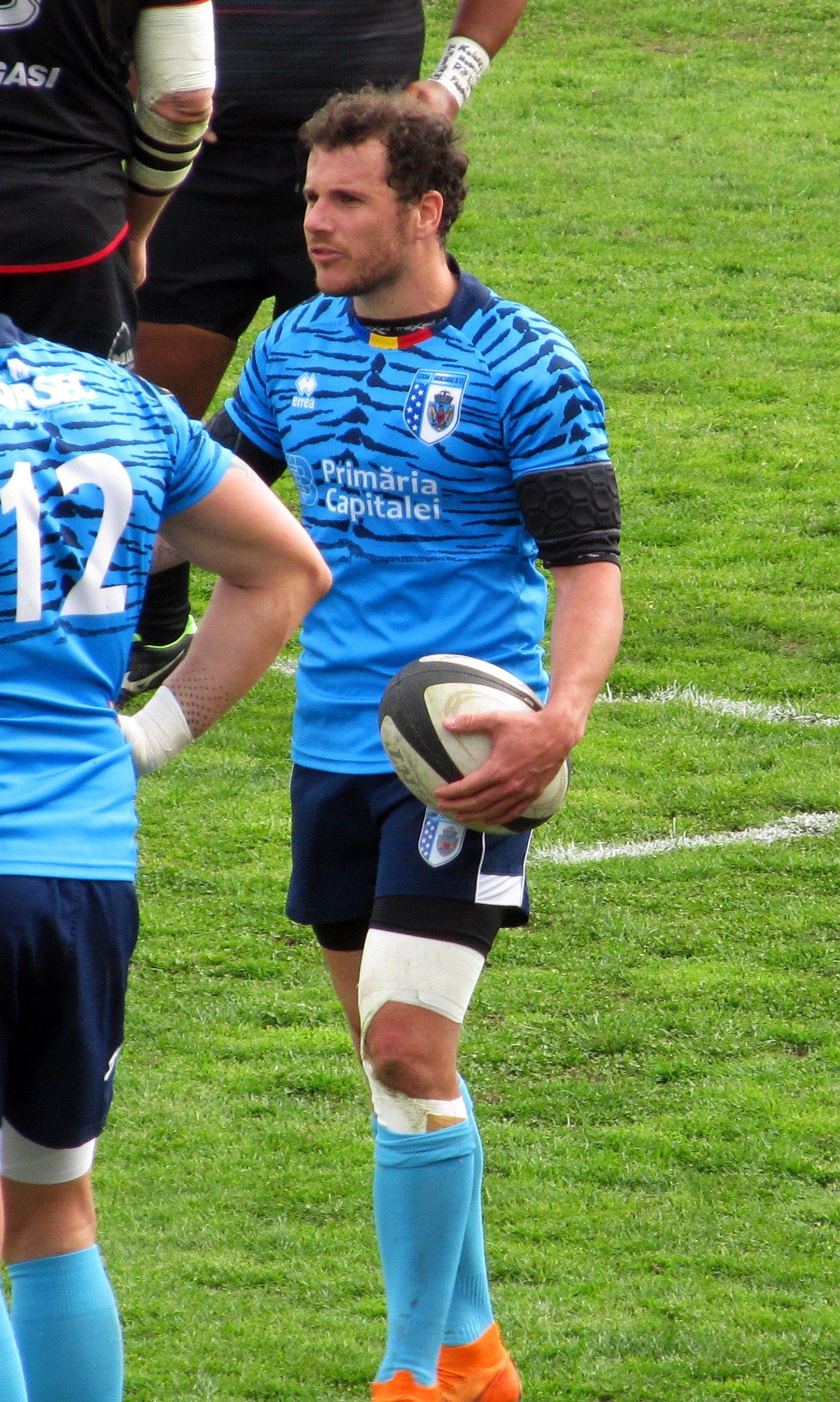 South African rugby union football player Danie Faasen seen during the 2019 Cupa României Final match between his team, CSM București, and rivals Timișoara Saracens in March 2019